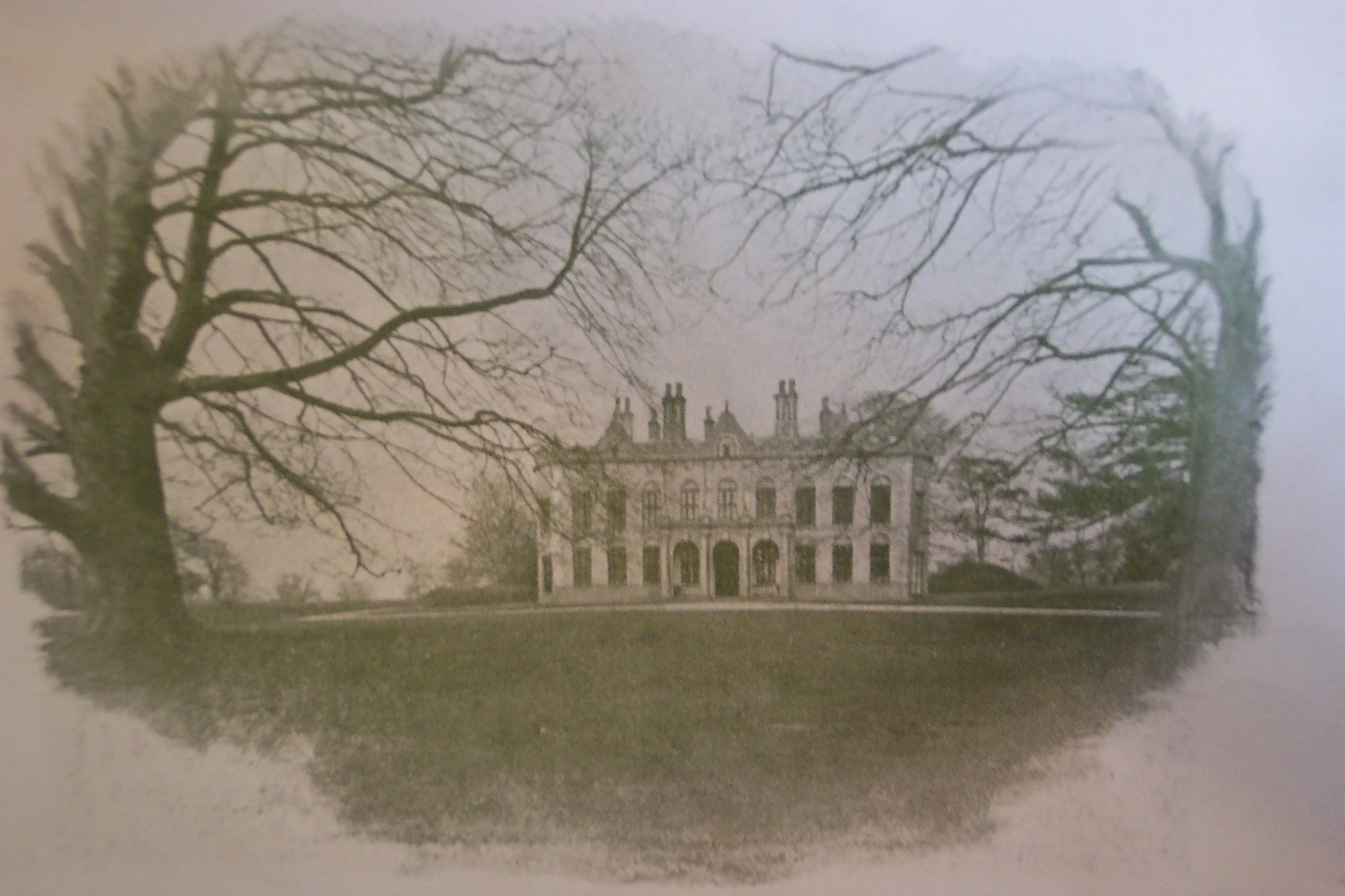 Packington Hall, Whittington, Staffordshire, circa 1900. Likely built for Zachary Babington, a barrister and High Sheriff of Staffordshire, whose daughter Mary married Theophilus Levett, town clerk of Lichfield. The architect of the home was James Wyatt. The country mansion subsequently was lived in by a branch of the Levett family of Staffordshire for many years. Photo from the Whittington & District History Society, now known as the Whittington History Society, Whittington, Staffordshire